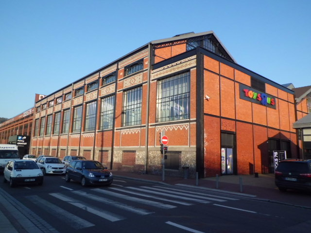 Ancient power station of the Rouen harbour